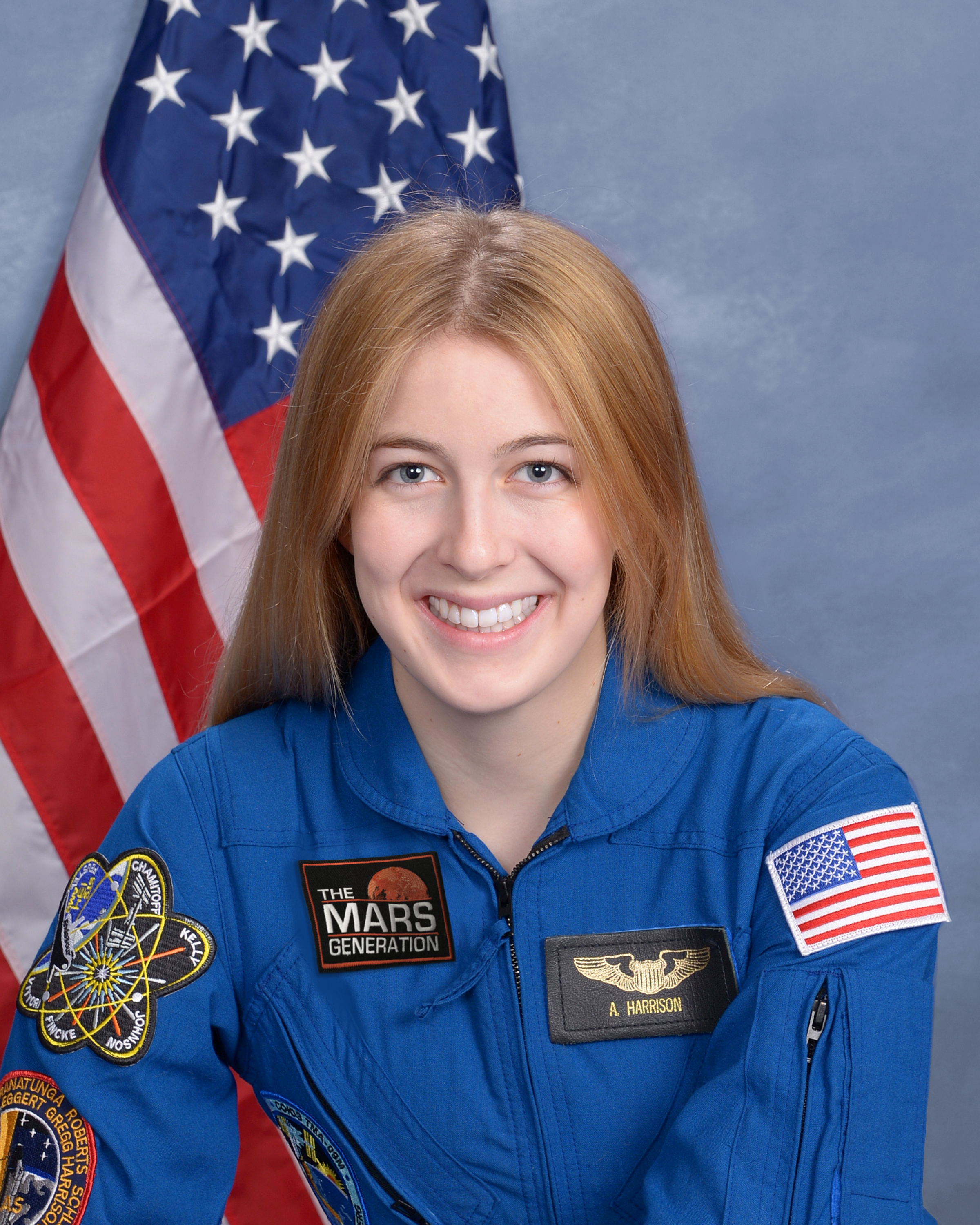 Official Astronaut Abby Photo